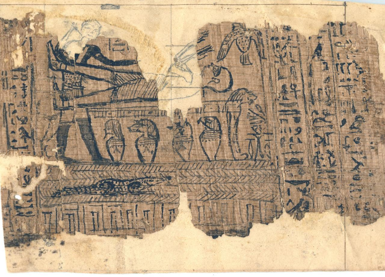 This photograph depicts a portion of the Joseph Smith papyri. The vignette in the center of the photograph is recognized as the source of facsimile 1 in the Book of Abraham, which is part of the Pearl of Great Price, a Mormon volume of scripture.